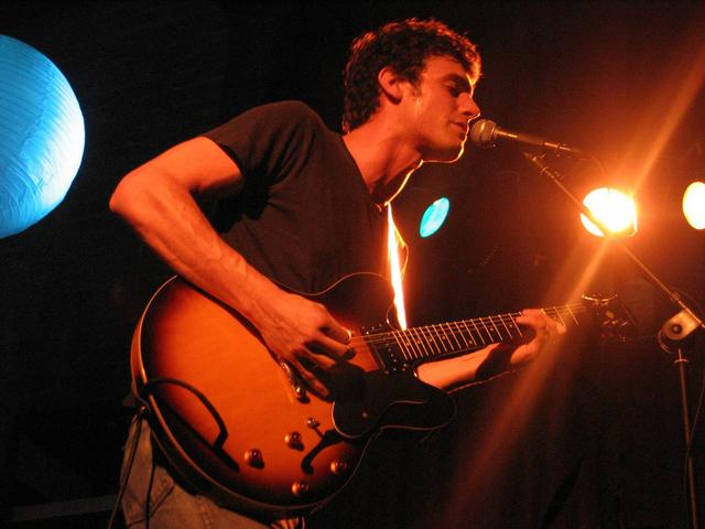 Photo taken by myself, Matthew Montgomery, on October 1st, 2005.